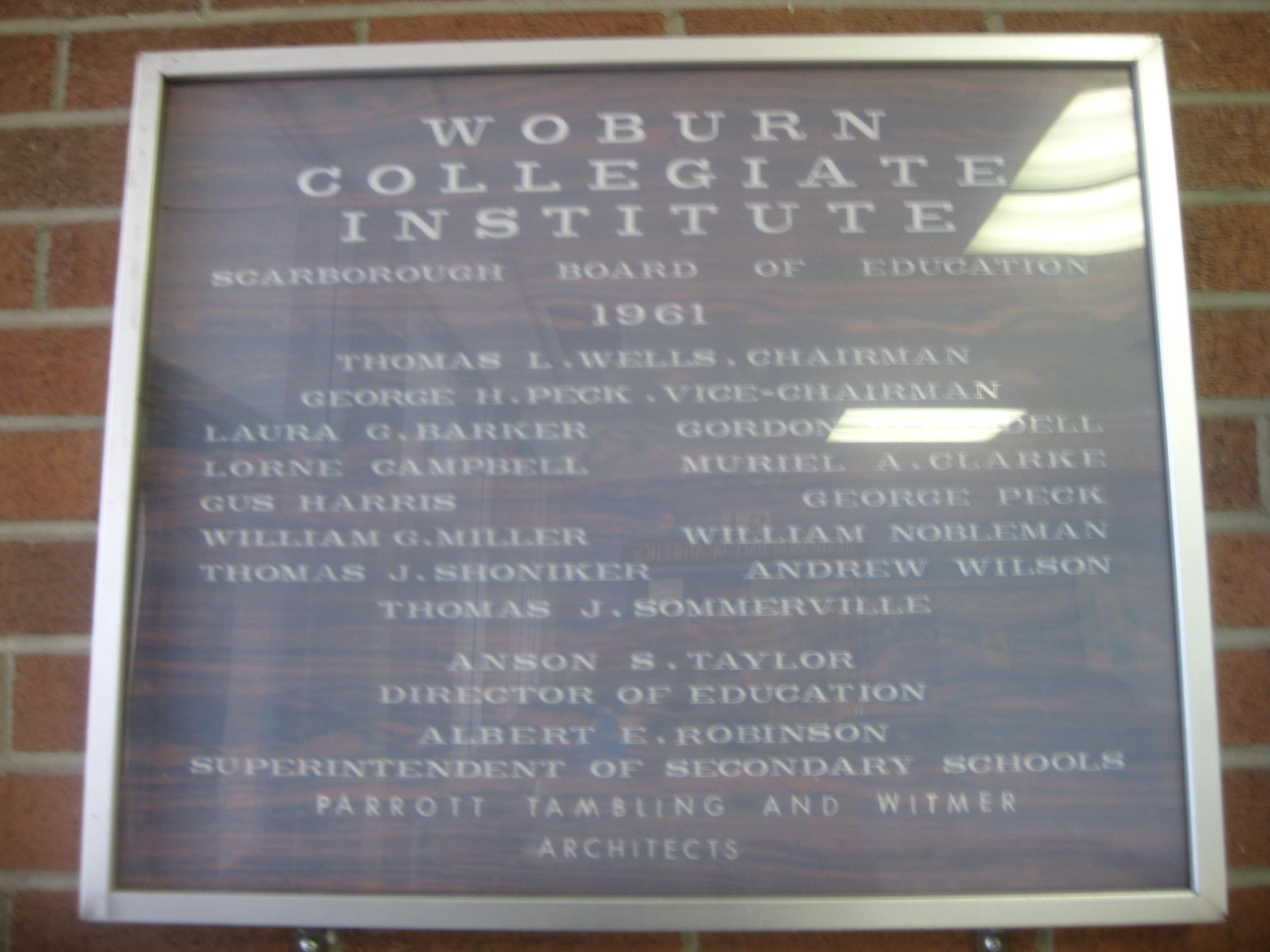 Plaque for Woburn C.I., 1961